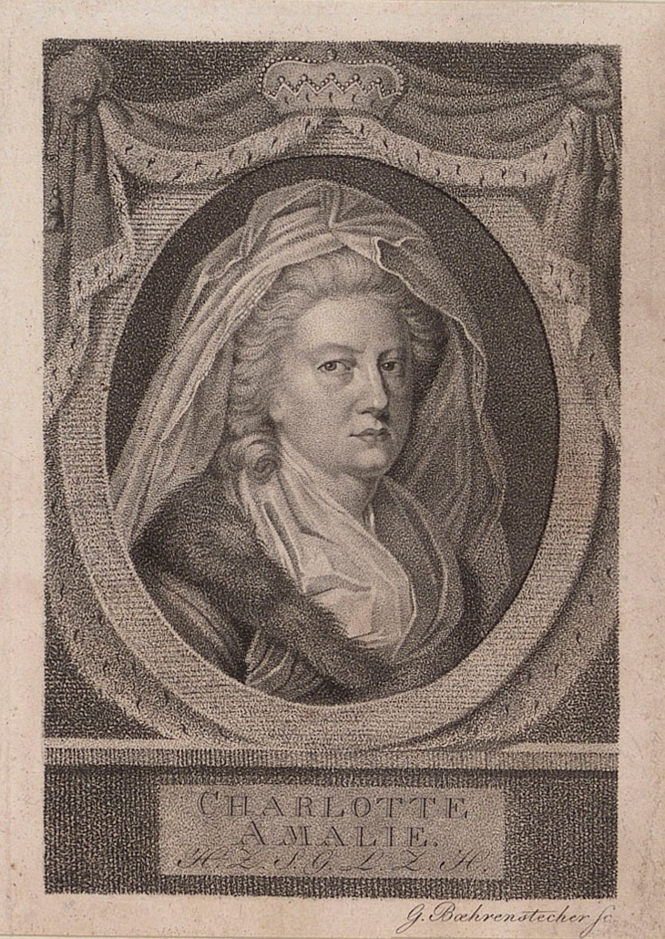 Portrait of Charlotte of Saxe-Meiningen, Duchess of Saxe-Gotha-Altenburg